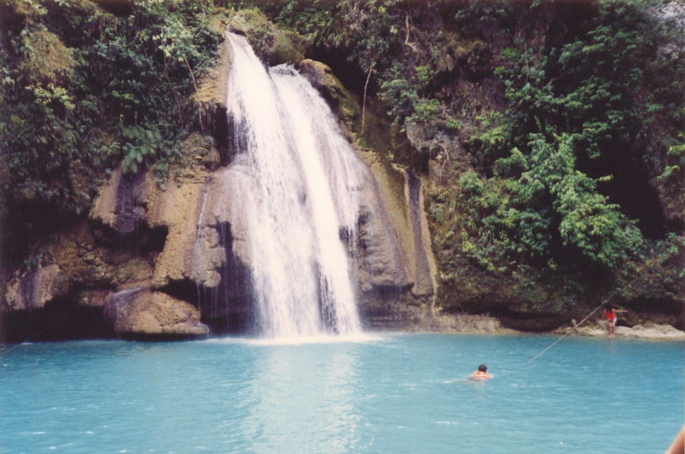 Kawasan Falls on Cebu Island picture taken by Magalhães in 1997